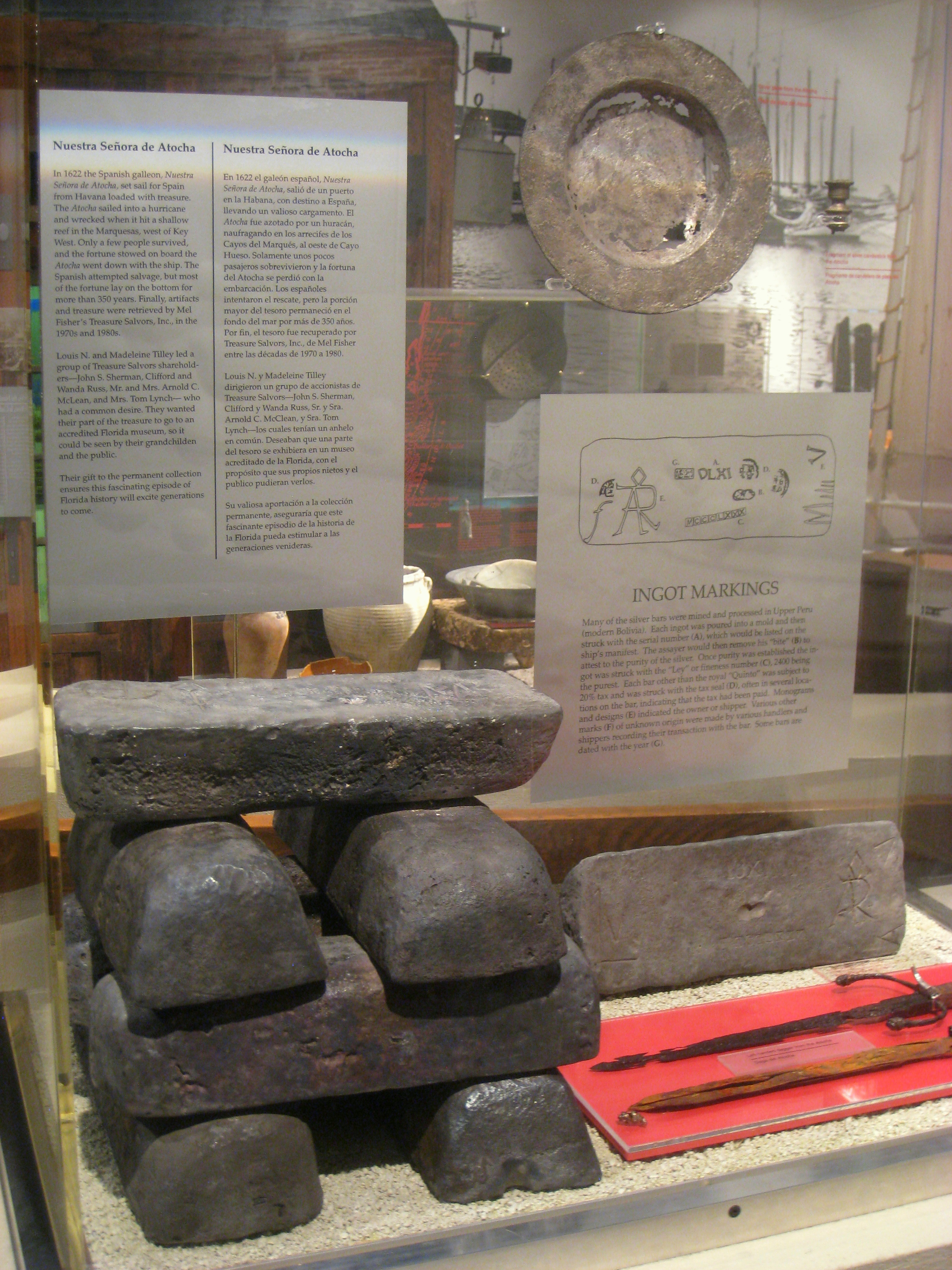 Silver ingots salvaged from the wreck of the Nuestra Senora de Atocha, sunk by storm in the Marquesas in 1622; silver primarily from (present day) Bolivia. Exhibit in HistoryMiami museum (formerly Historical Museum of Southern Florida), in the Miami-Dade Cultural Center, 101 West Flagler Street, Florida, USA. s.